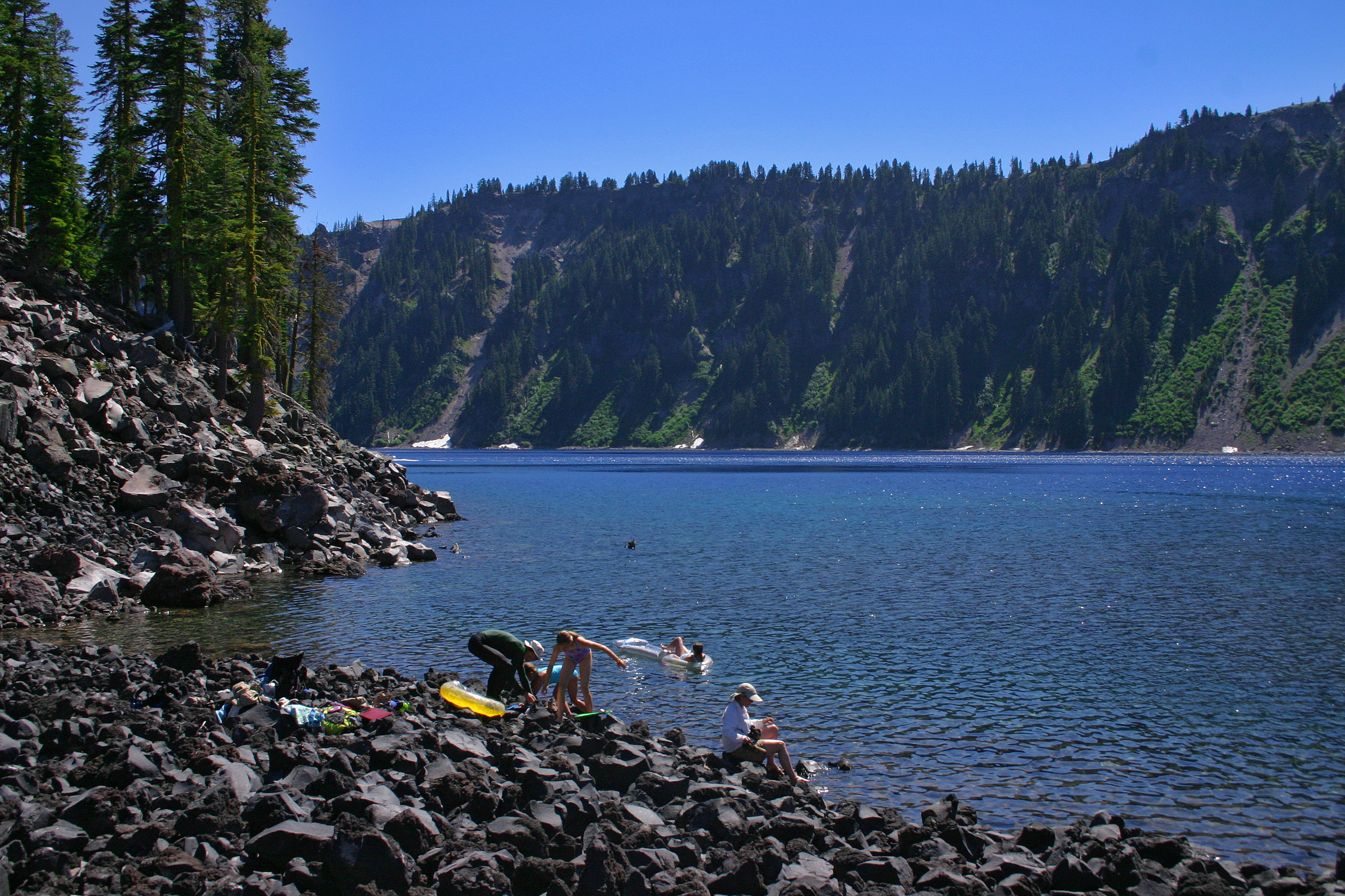 Fumarole Bay at Wizard Island, Crater Lake. Reaching this spot requires hiking down to the lake, taking the boat to Wizard Island and hiking a fairly rough trail.